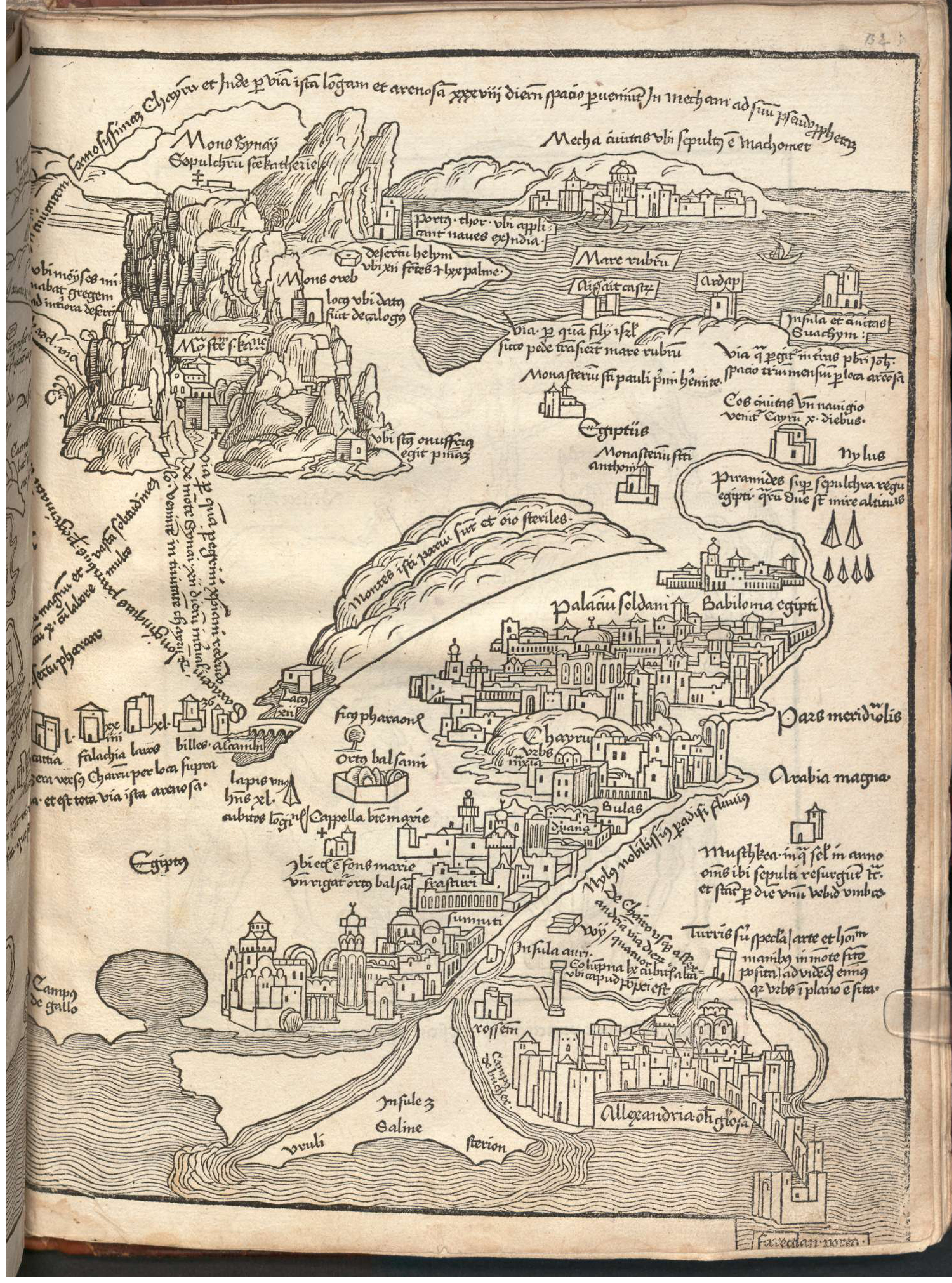 Right half of a 15th-century map of the Holy Land, Sinai, and Egypt, showing the river Nile. It was conceived by Bernhard von Breydenbach from the pilgrimage he undertook in 1483 and was executed by the woodcutter Erhard Reuwich. It is located at folio 132r in Bernhard von Breydenbach, Peregrinatio in terram sanctam (Mainz, 1486)